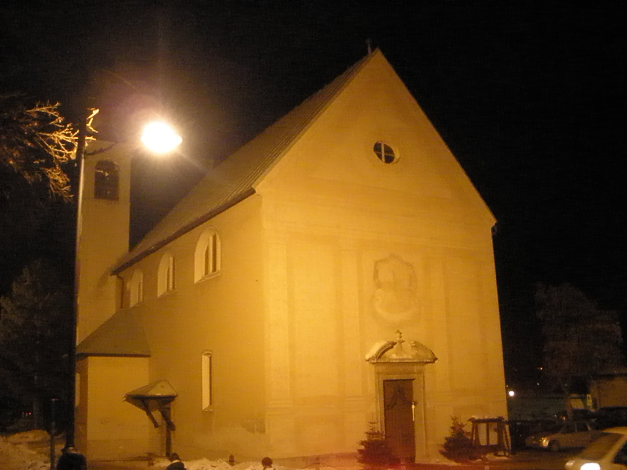 The Madonna della Difesa (Our Lady of the Defense) church, in Cortina d'Ampezzo, Italy.